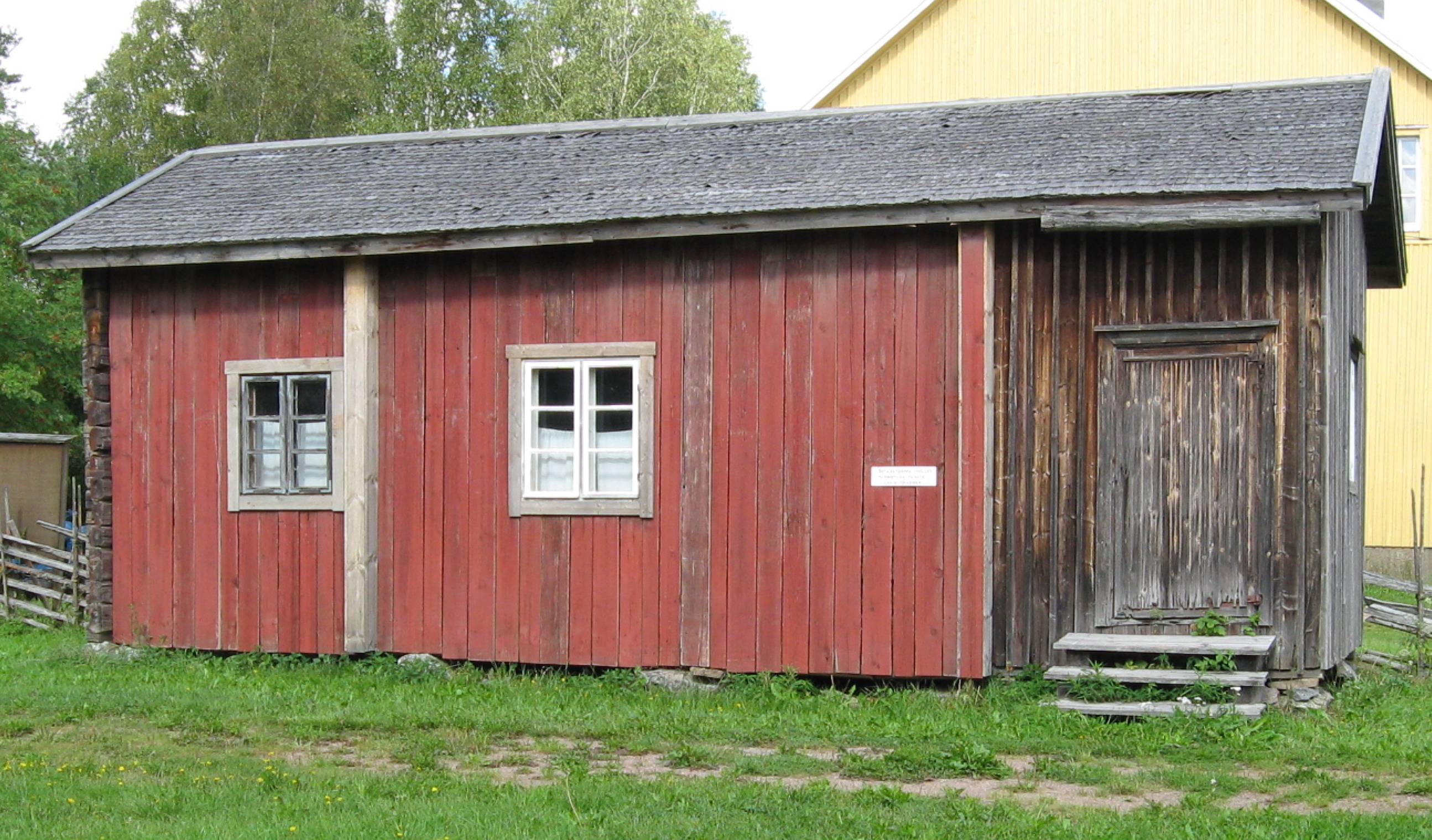 An old cottage, soldiers residence. Reppuniemi open air museum, Pöytyä, Finland. Built originally in the 1700's. Its has wooden shingle roof.